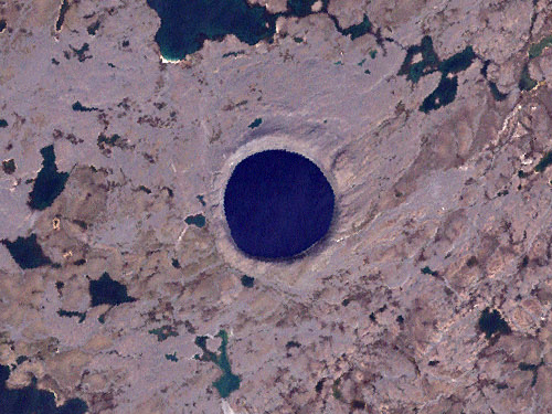 NASA's Landsat 7 satellite captured this image of Pingualuit crater in Canada on August 17, 2002. In this image, water appears blue, and land appears in varying shades of beige. The high latitude of the area limits vegetation, so thick, lush forests do not flourish in this region. The crater’s name derives from an Inuktitut term meaning pimples evoking the hills landform of the surrounding area. Local Inuit also knew it as the Crystal Eye of Nunavik because of its circular form and its clear water. With a diameter of 3.44 kilometers (2.14 miles), Pingualuit Crater holds a lake about 267 meters (876 feet) deep. Because this lake has no connection to any other water body, inflows from other lakes cannot contaminate Pingualuit’s sediments. Beyond that, the sediments in this crater lake escaped being scoured away by glaciers during the Pleistocene Ice Age. So while sediment deposits in other water bodies in the area do not extend farther back in time than the last ice age, deep sediments in Pingualuit Crater preserve a longer record.